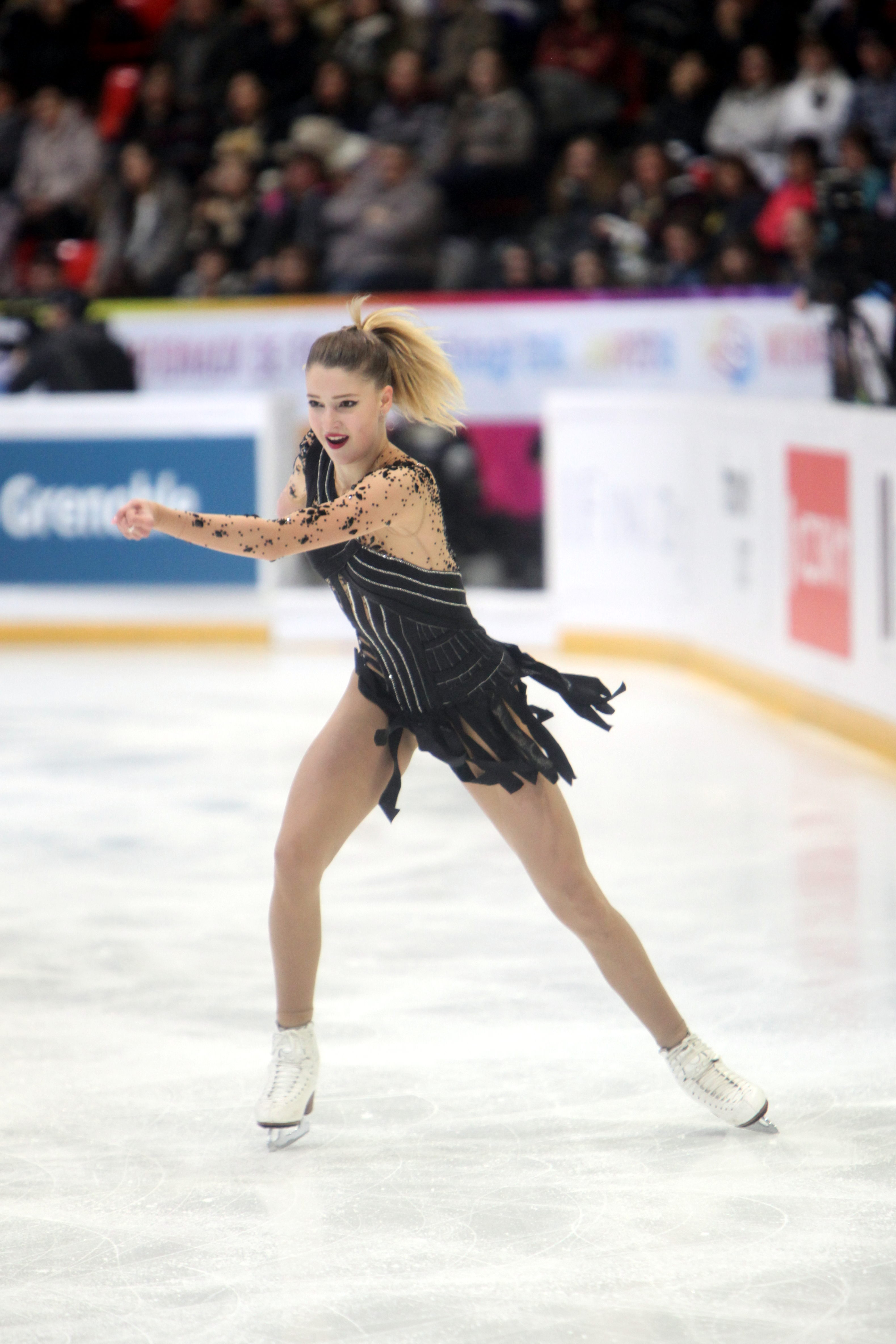 Maria Sotskova during the Ladies Free Skating at the Internationaux de France de Patinage 2018.